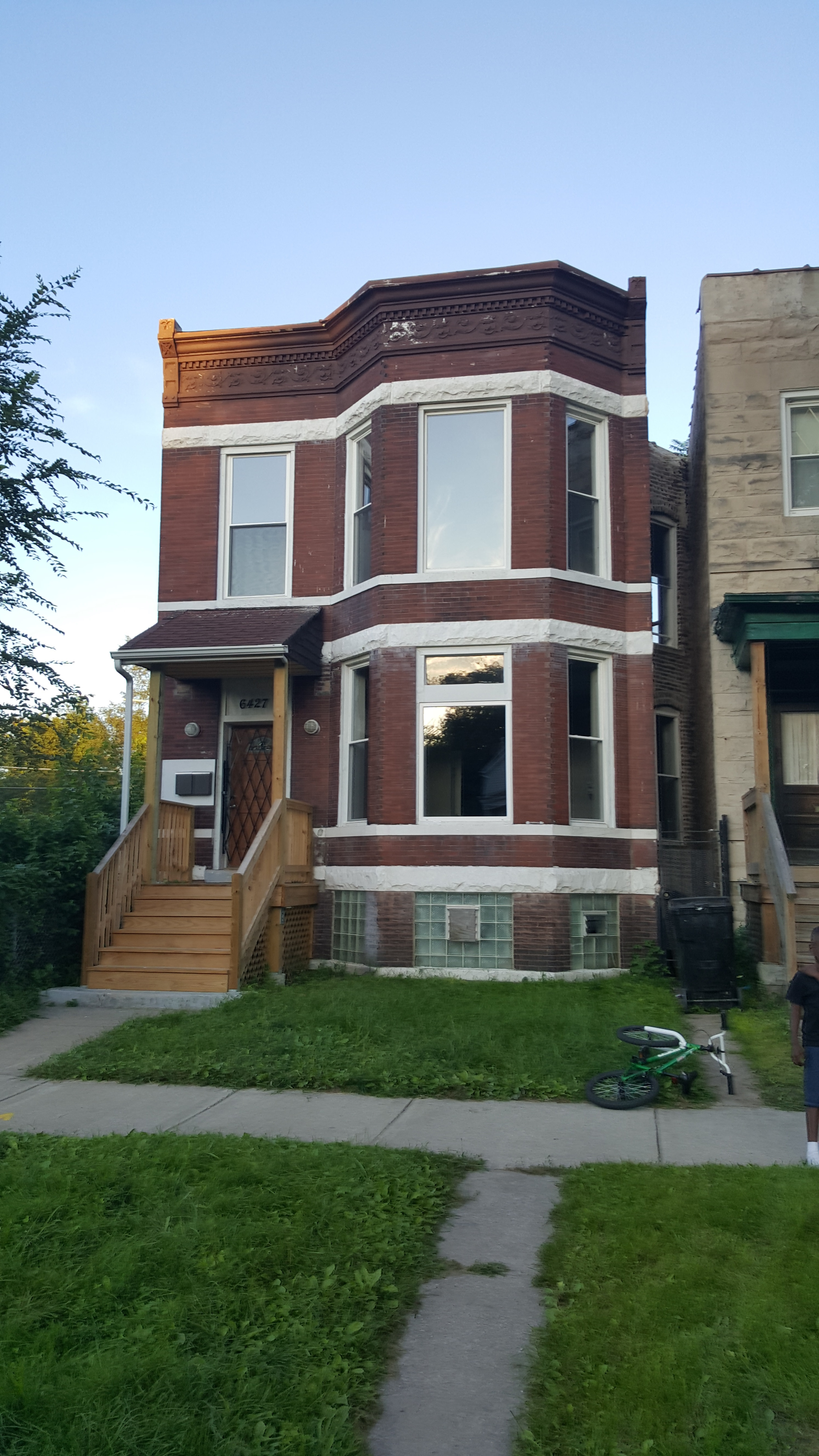 Emmett Till's last home, at 6427 S. St. Lawrence Avenue in Chicago